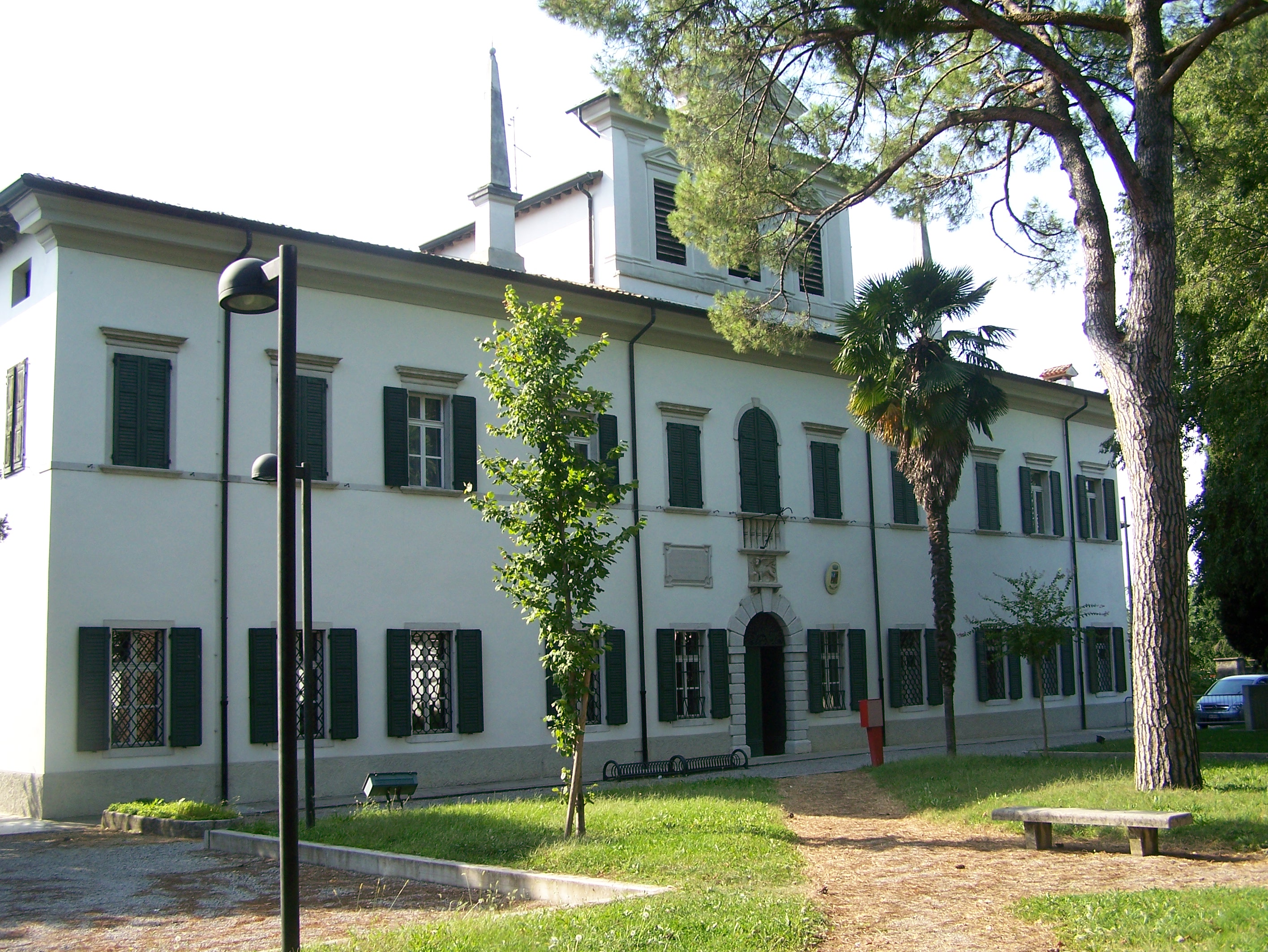 Villa Marcotti, nowadays the town hall, in Campolongo al Torre, Friuli, Italy. It was built in 1723. Furlan: La Vile Marcotti, a Cjamplunc, te Basse. Vuê al è il municipi. E fo costruide intal 1723